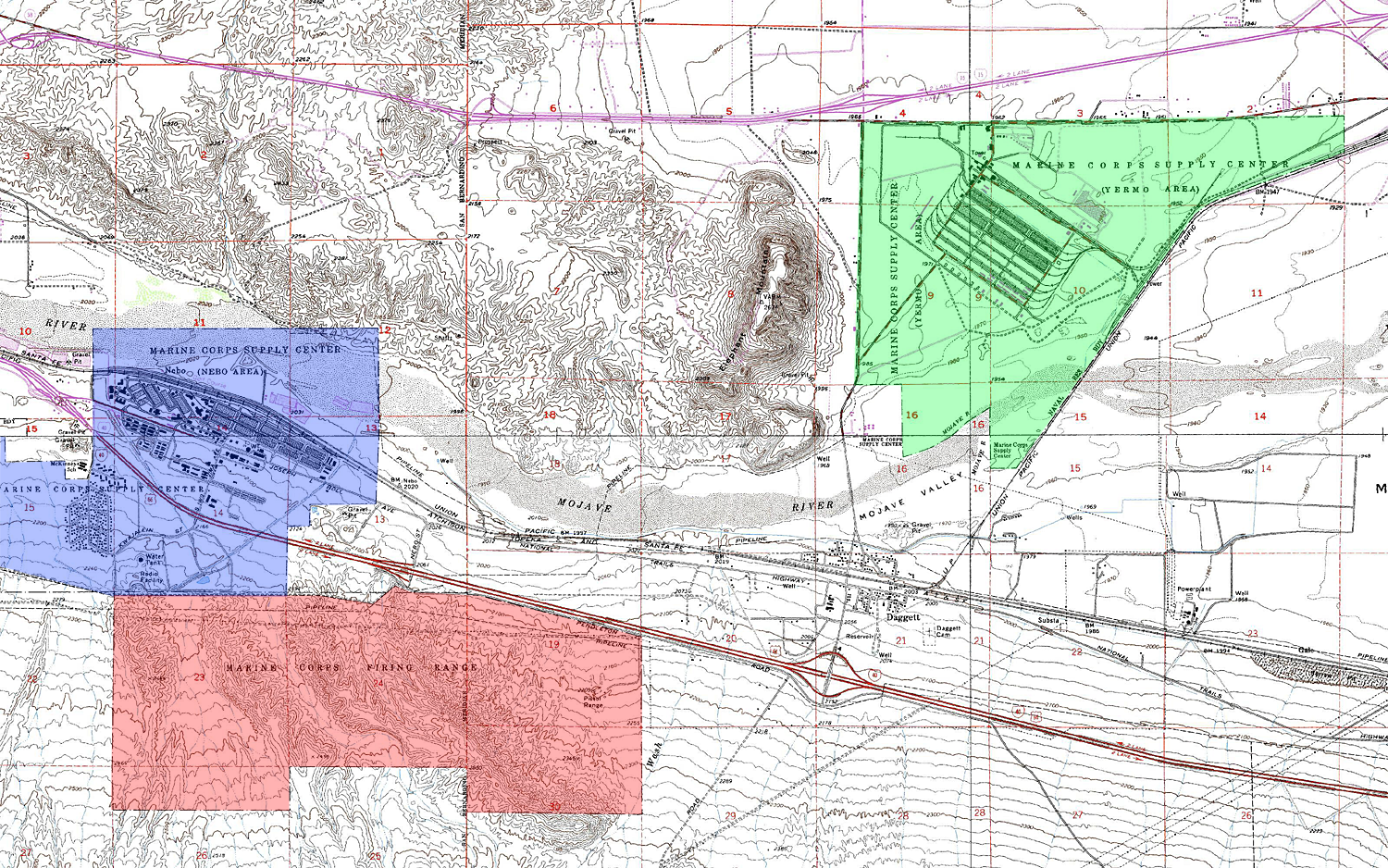 Map of the location of the Marine Corps Logistics Base Barstow Annexes, east of Barstow, California. The Nebo Annex is blue, Yermo Annex is green and the firing range is red. The Mojave River channel also shown.